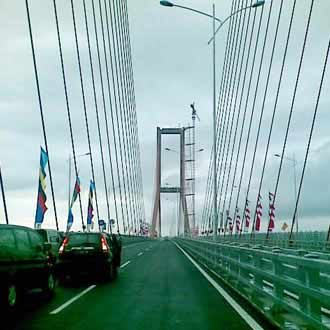 Suramadu bridge between Surabaya and Madura